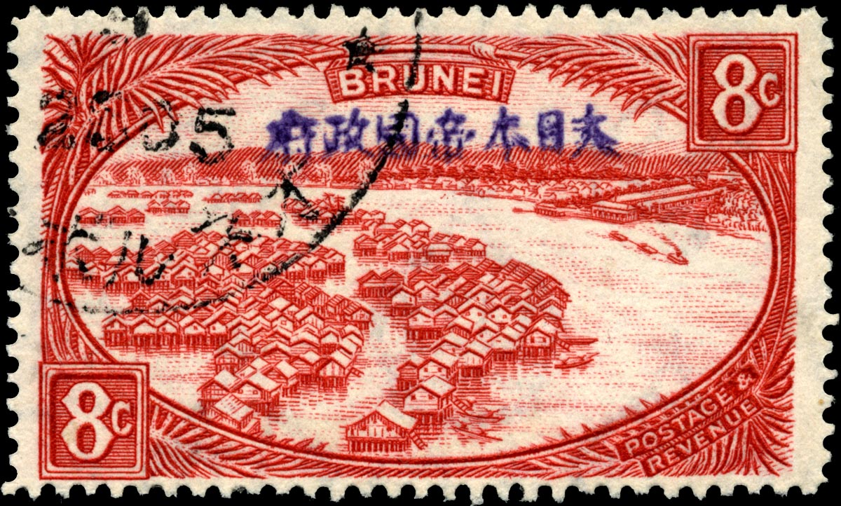 Brunei 8c Japanese occupation stamp of 1942.